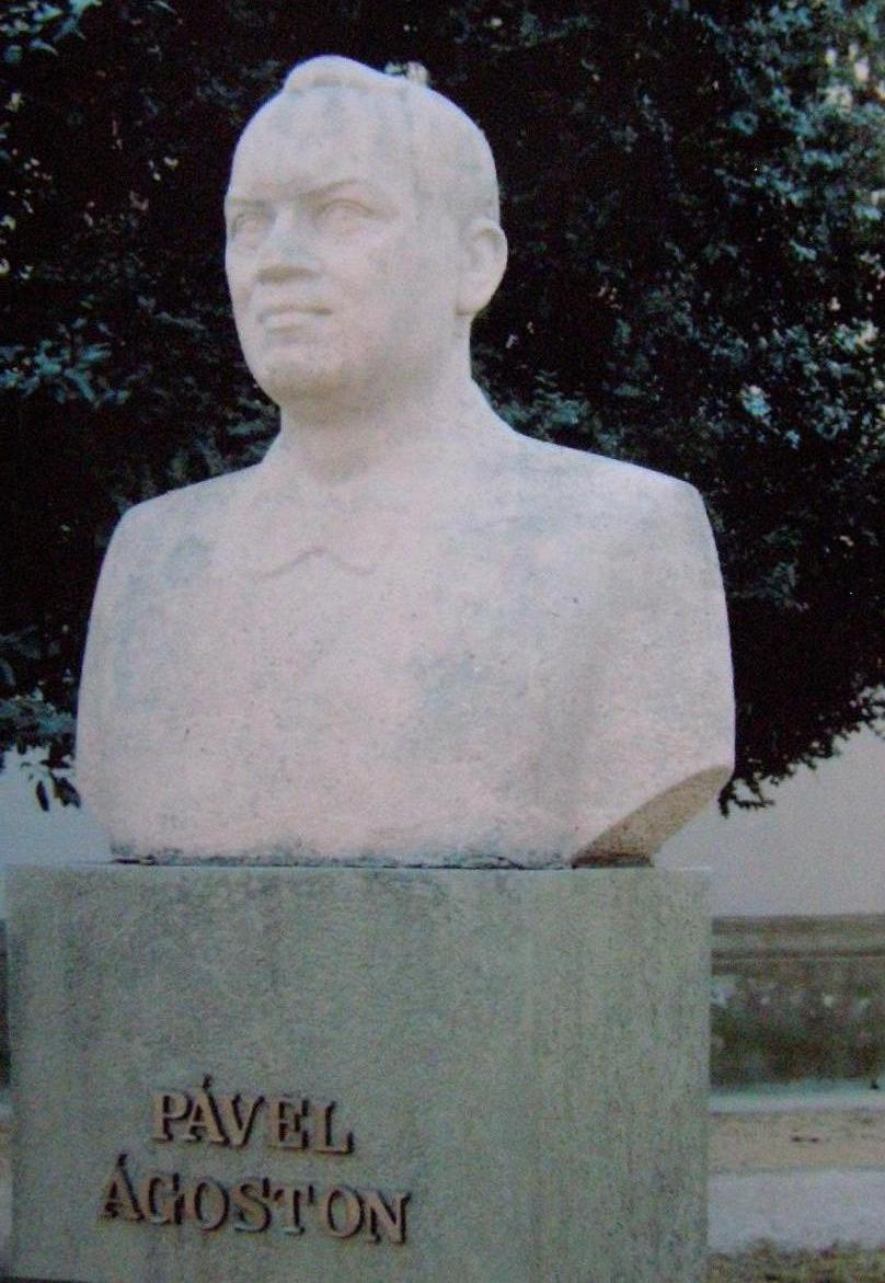 Statue of Ágoston Pável in Szombathely